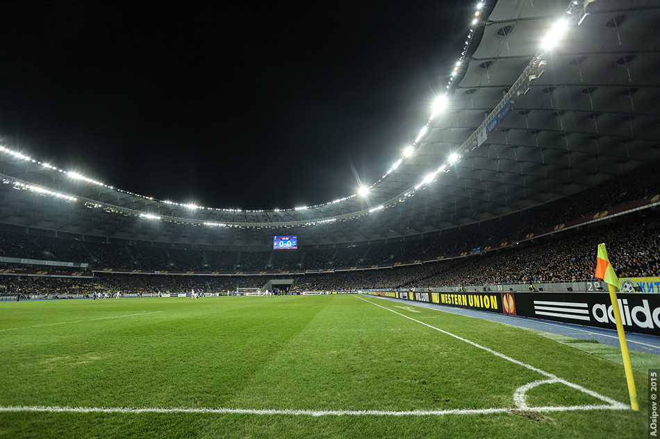 UEFA Europa League 2014-15 1/8 Final NSK Olimpiyskyi - Kyiv 19/03/2015 - 19:00CET (20:00 local time) Round of 16, Second leg Dynamo Kyiv - Everton - 5:2 Goals: Yarmolenko 21 Lukaku 29 Teodorczyk 35 Miguel Veloso 37 Gusev 56 Antunes 76 Jagielka 82 Aggregate: 6-4